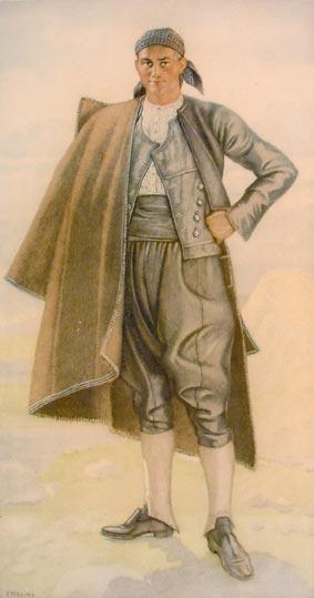 Greek man's Costume (Ionian Islands, Lefkas) - Greek Costume Collection by NICOLAS SPERLING (Russia 1881-1940 / act: Athens)